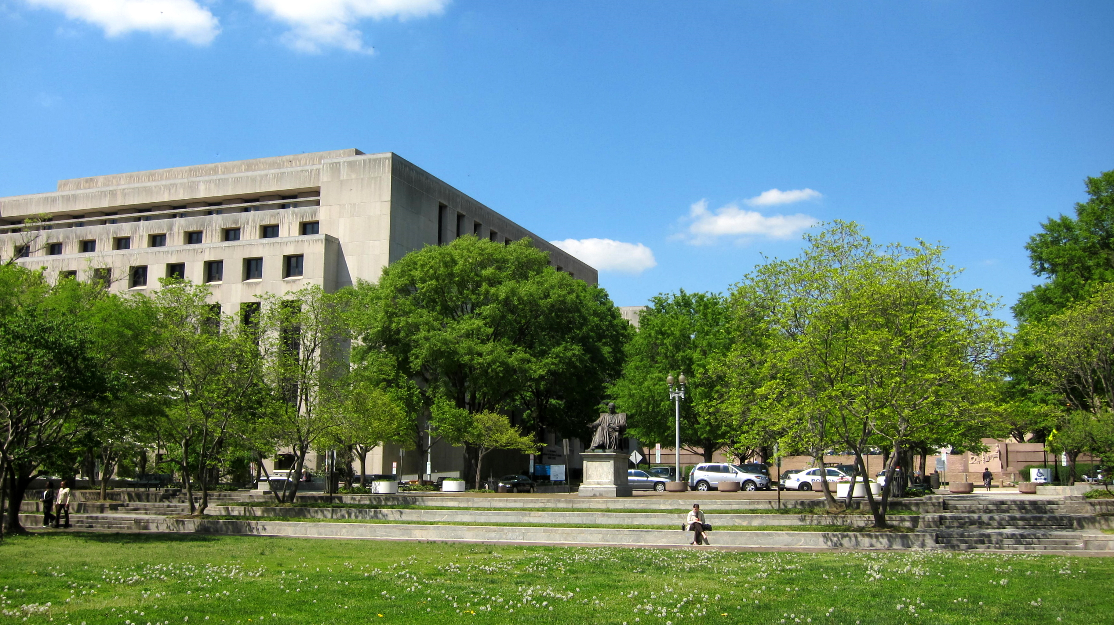 John Marshall Park in the Judiciary Square neighborhood of Washington, D.C.Visible in the background, far right, on the terrace wall of the steps, is the bas-relief panel Urban Life (1942) by sculptor John Gregory.